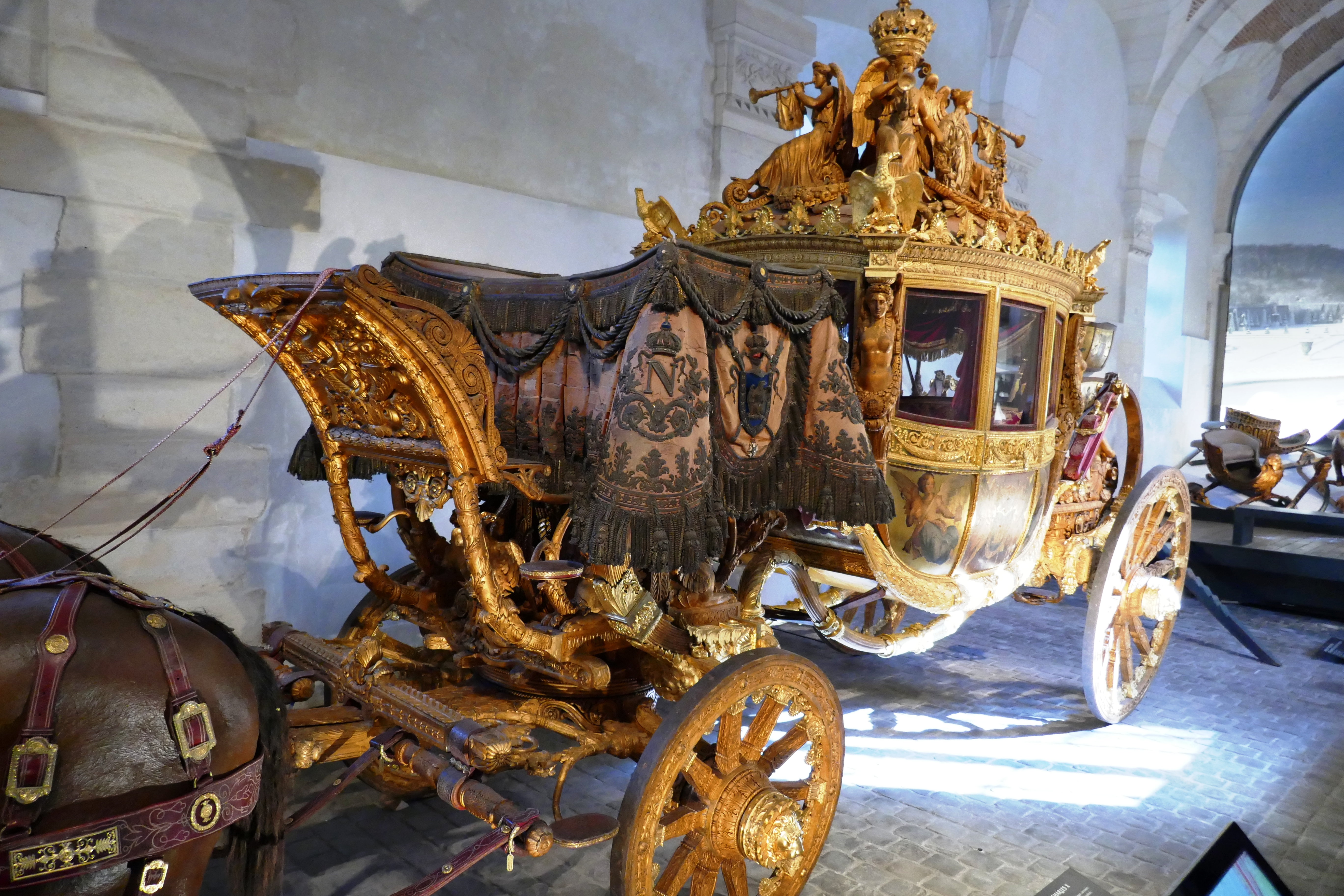 Grand gala berline with eight windows. Built in Paris between 1816 and 1825 by Percier and Hittorff, architects; Duchesne, drawer-carriage manufacturer; Roguier, sculpto; Denière and Matelin, bronze artist-engraver; Gauthier, gilder; Delorme, painter; Vauchelet; painter; Delalanden, embroiderer. Height: 4.48 m Length: 6.70 m Width: 2.60 m Weight: around 4 tons Begun in 1816 for the projected coronation of Louis XVIII. Finished in 1865 for the coronation of Charles X. Modified by Joachim Ehrler in 1853 for the projected consecration of Napoleon III in Rome. Restored in 1856 by Erhler & Sons for the baptism of the Imperial Prince, son of Napoleon III (to transport the Imperial Couple). Exhibition at the Grande Écurie, Versailles (August 2015)